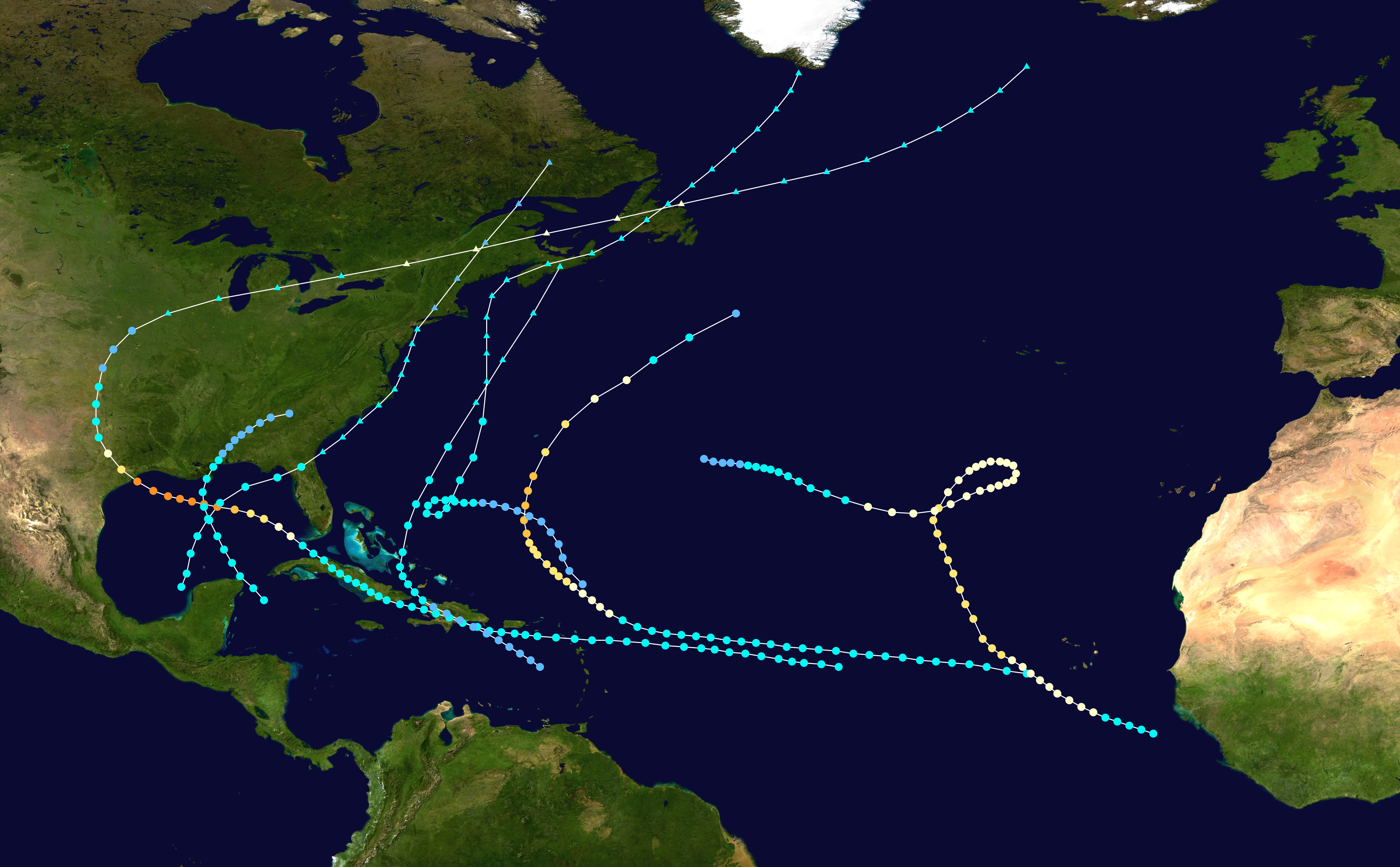 This map shows the tracks of all tropical cyclones in the 1900 Atlantic hurricane season. The points show the location of each storm at 6-hour intervals. The colour represents the storm's maximum sustained wind speeds as classified in the Saffir-Simpson Hurricane Scale (see below), and the shape of the data points represent the type of the storm. Saffir–Simpson scale Tropical depression≤38 mph≤62 km/h Category 3111–129 mph178–208 km/h Tropical storm39–73 mph63–118 km/h Category 4130–156 mph209–251 km/h Category 174–95 mph119–153 km/h Category 5≥157 mph≥252 km/h Category 296–110 mph154–177 km/h Unknown Storm type Tropical cyclone Subtropical cyclone Extratropical cyclone / Remnant low / Tropical disturbance / Monsoon depression